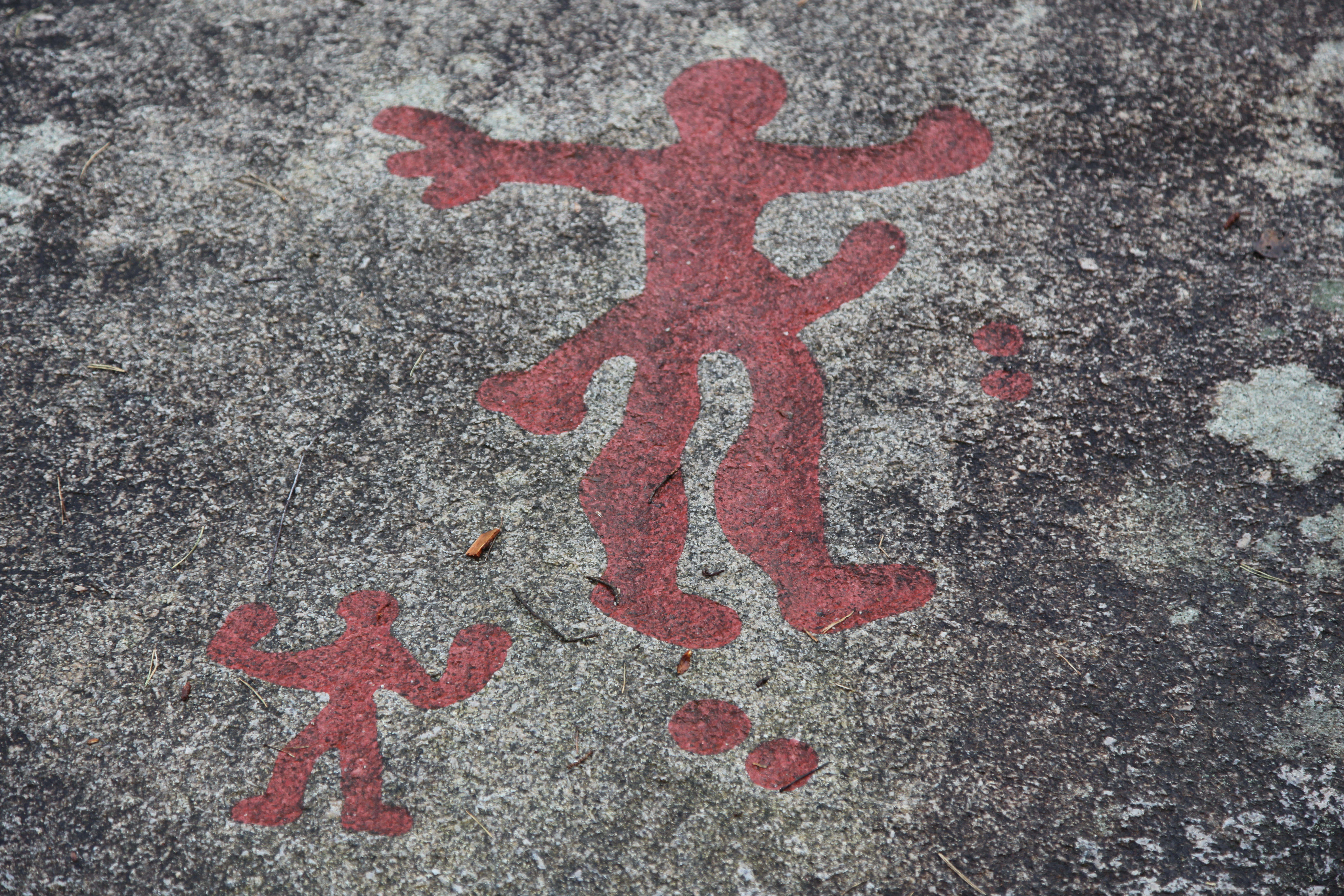 Rock carving from the Begby field near Fredrikstad, Østfold, Norway.